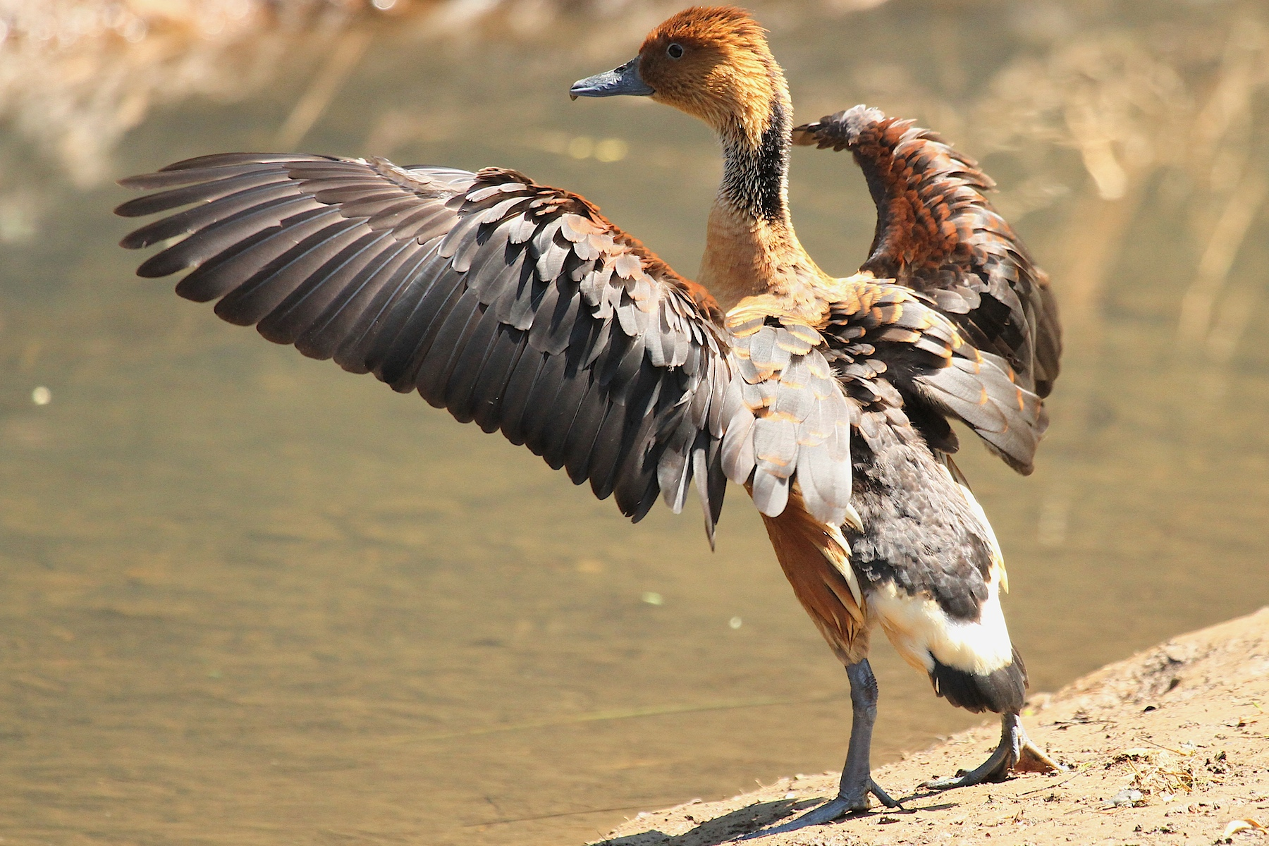 Austin Roberts Bird Sanctuary, New Muckleneuk, Pretoria This media shows a South African Protected Site with SAHRA file reference 9/2/258/0035.